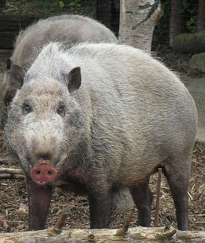 Native to Malaysia, Sumatra and Borneo. London Zoo In context at